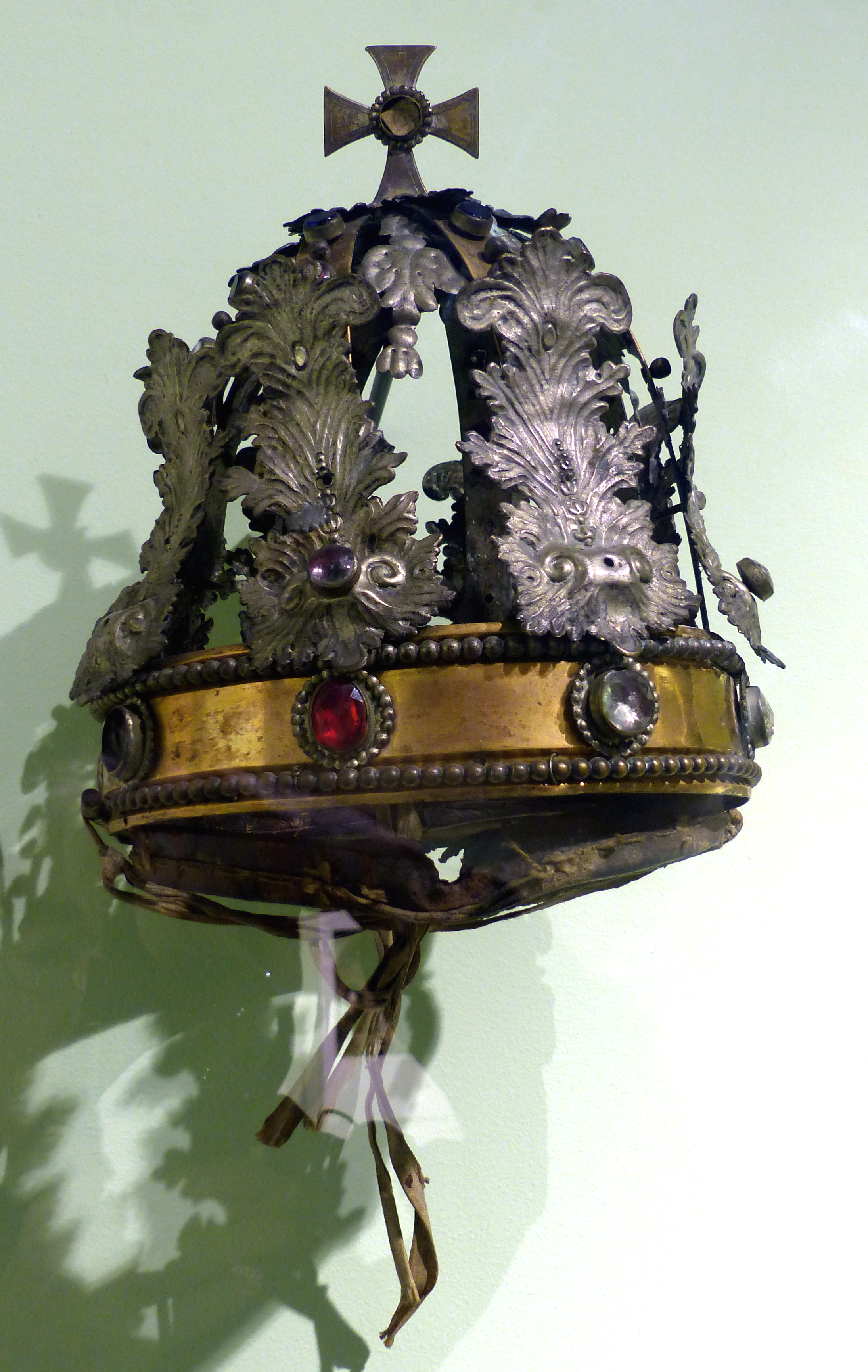 Roth ( Middle Franconia ). Ratibor castle - Museum: Funeral crown ( 18th century )